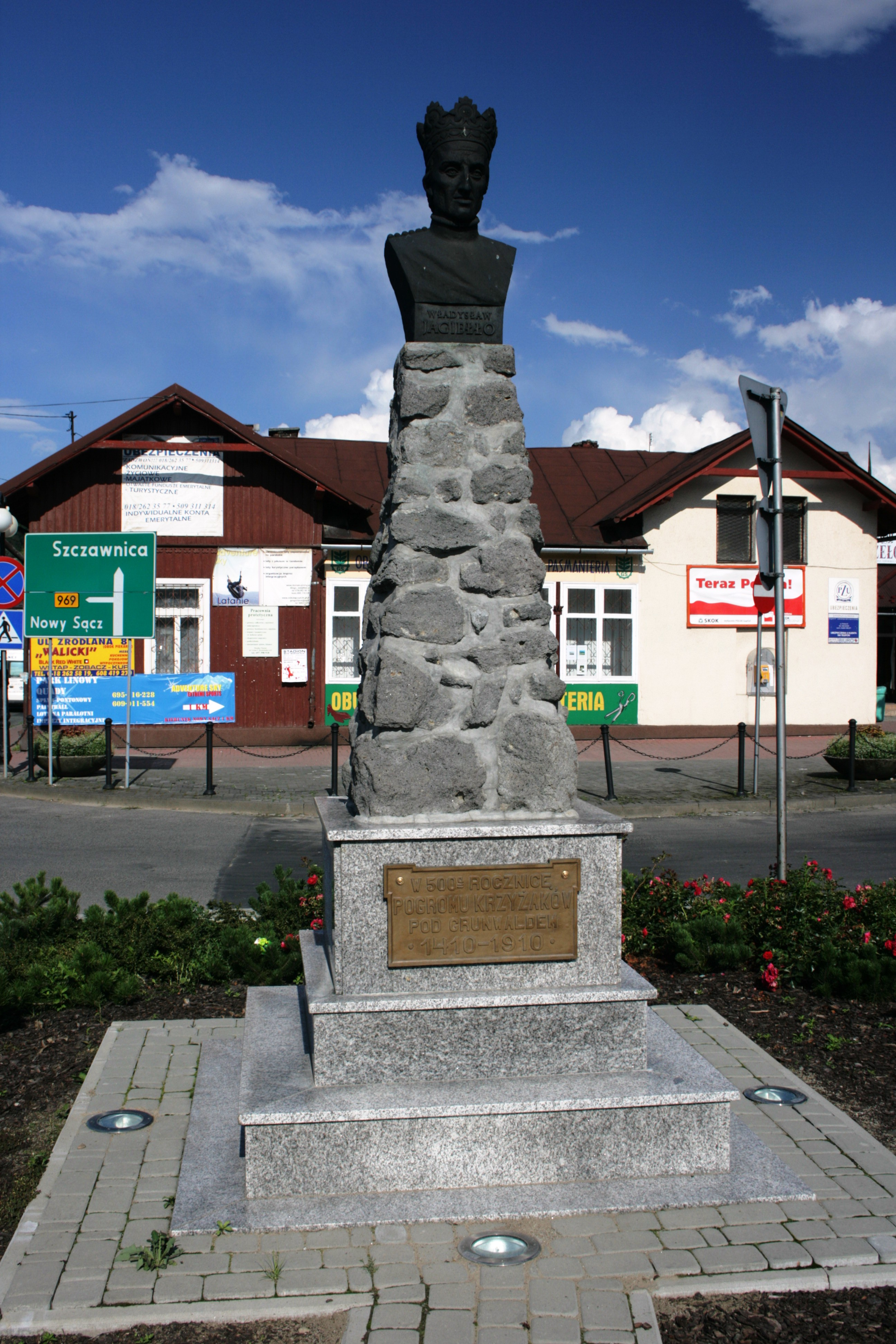 Wladyslaw Jagiello monument in Kroscienko on Dunajec in Poland in 1910 to commemorate 500th anniversary of the Grunwald battle